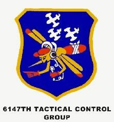 Emblem of the 6147th Tactical Control Group (Korean War)